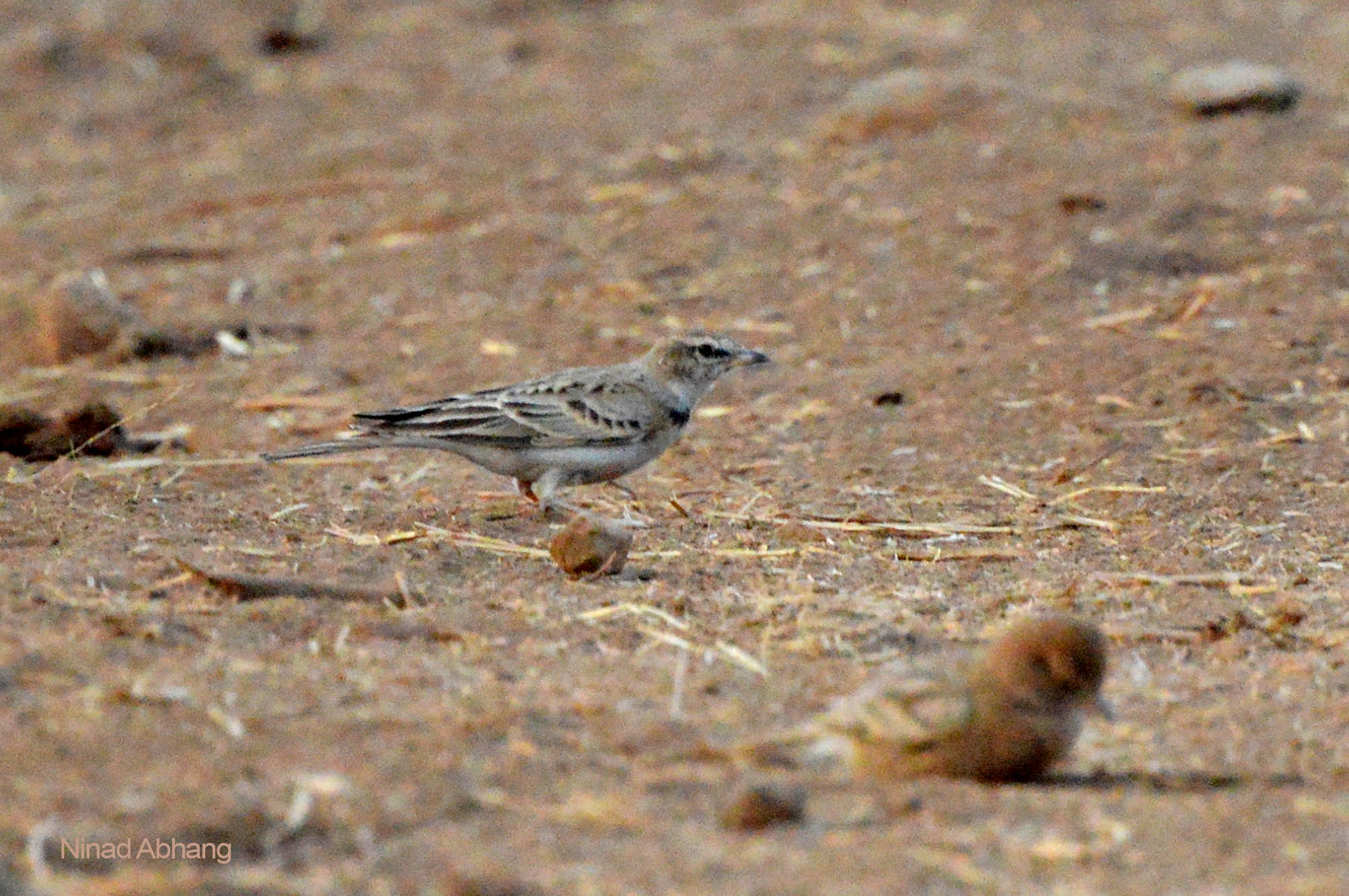 Hume's Short-toed Lark. Photographed by Mr.Ninad Abhang. Amravati, Maharashtra, India.